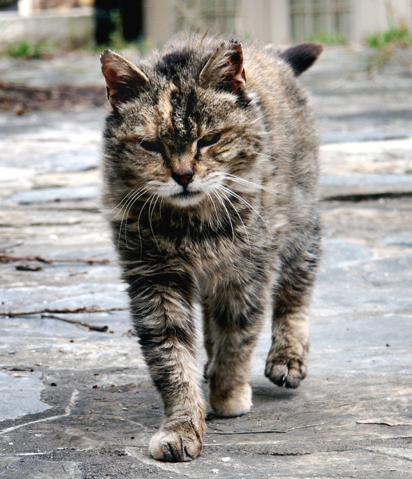 Feral barn cat. Virginia, 2002. Modified from orignal. Cropped, adjusted contrast/brightness, and for clarity. Multiple healed injuries from catfights visible.